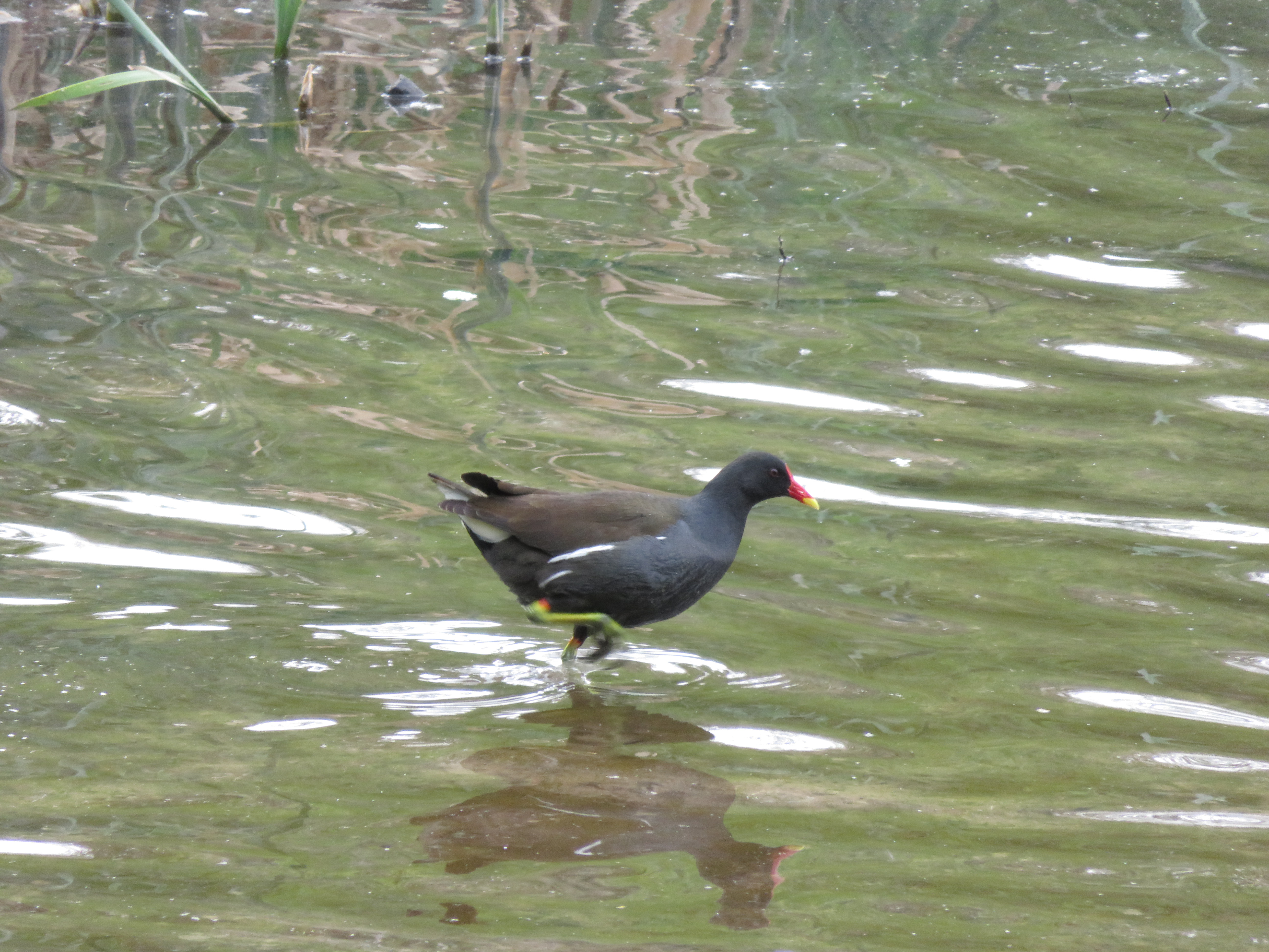 Common moorhen (Gallinula chloropus) in Rylskyy park, Kyiv, Ukraine